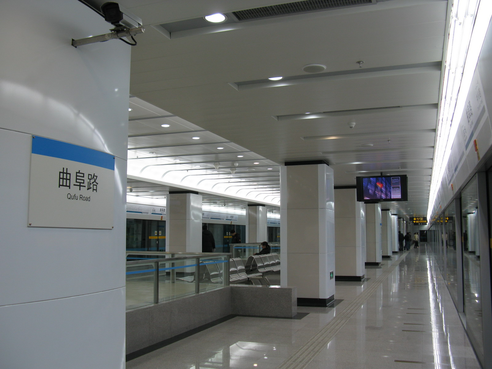 曲阜路站 8号线月台 Line 8 Platform of Qufu Road Station